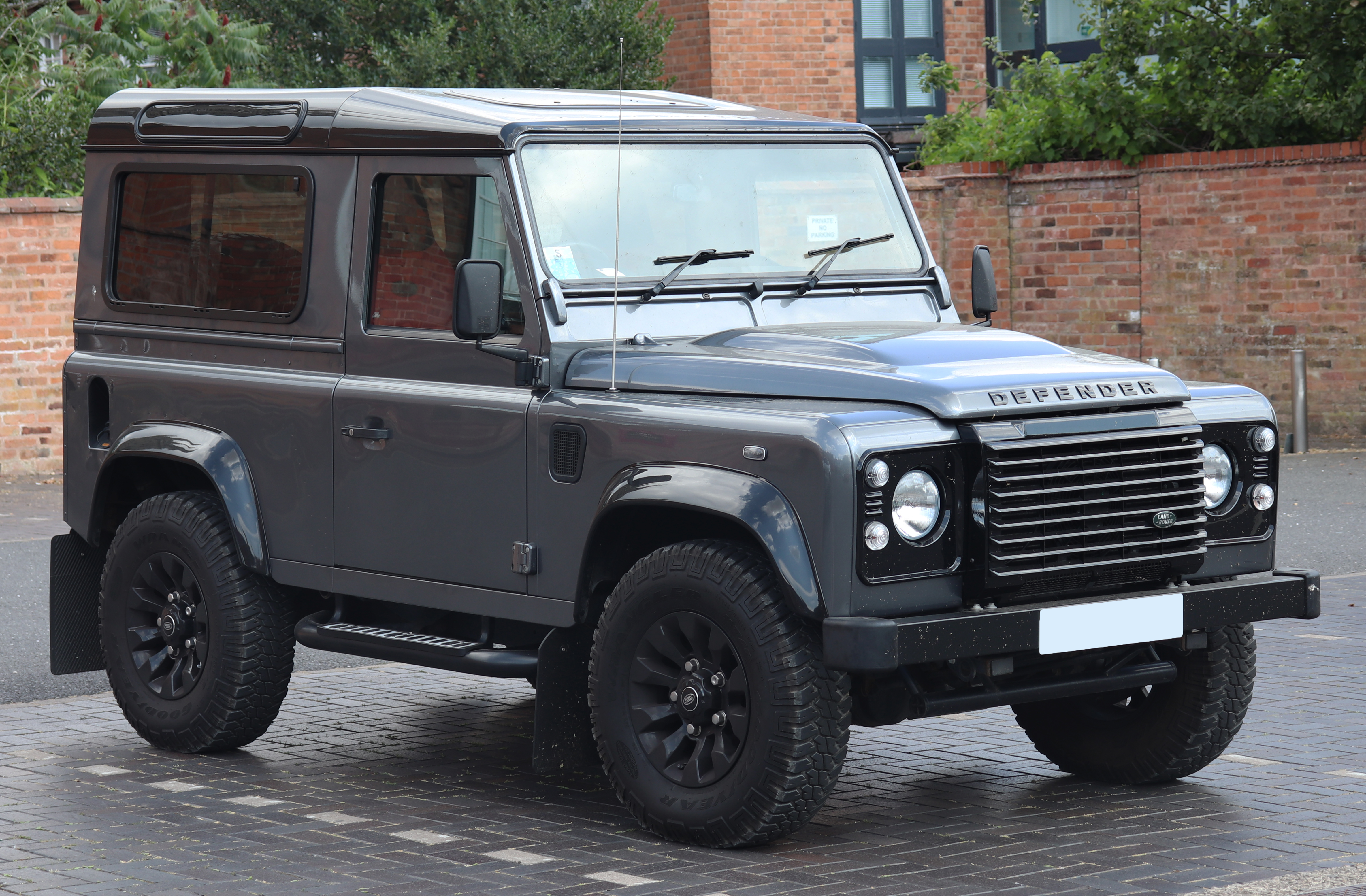 2015 Land Rover Defender 90 XS TD 2.2 Front Taken in Warwick